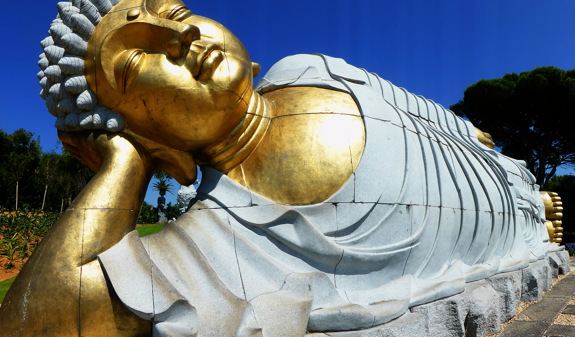 Buddha Eden - Quinta dos Loridos - Grand Reclining Buddha, Portugal